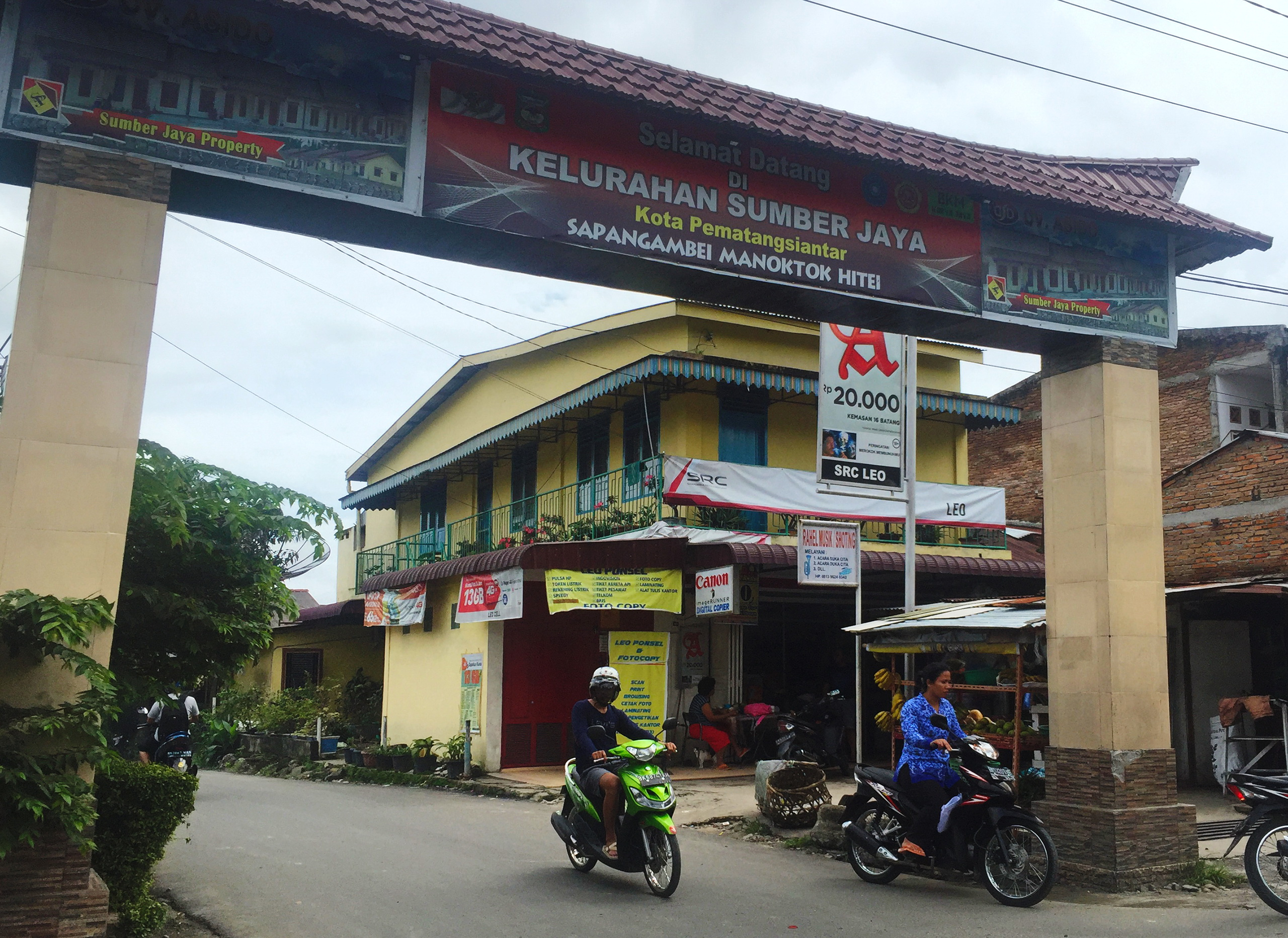 Welcome Gate to Sumber Jaya, Siantar Martoba, Pematangsiantar